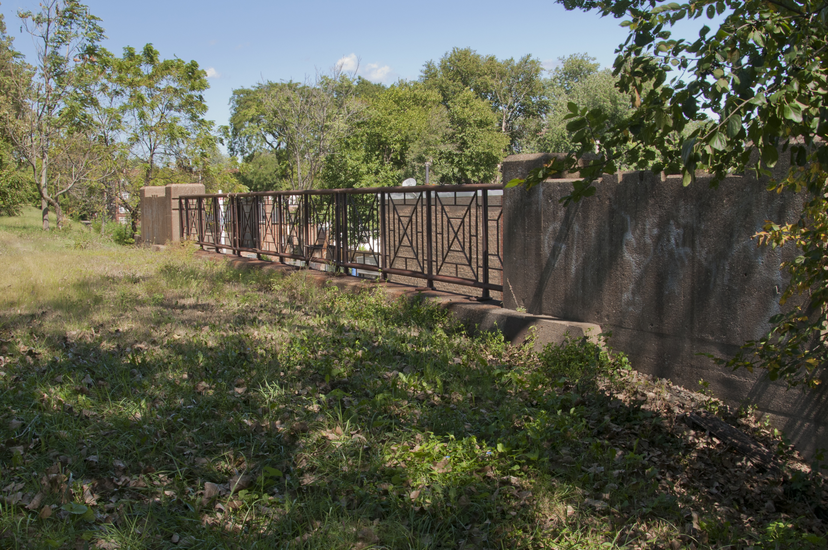 The old Nickel Plate Railroad bridge over 83rd Street. The Metra station (former Illinois Central) exists just west of this.